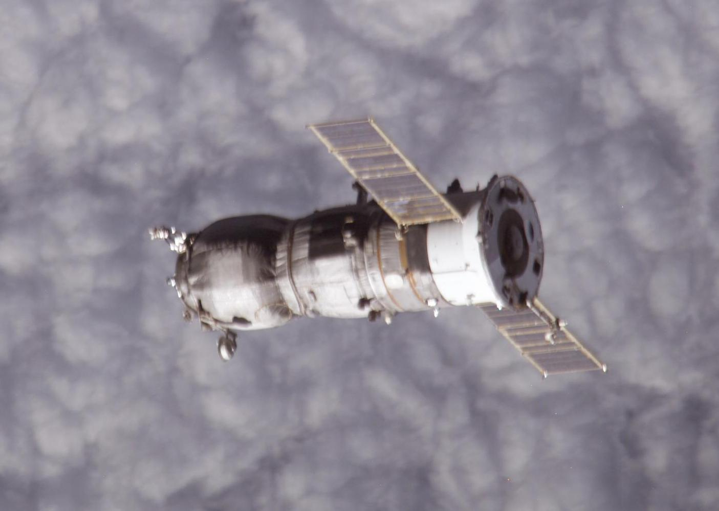 Cropped image of Progress M-51 seen from the International Space Station during undocking.